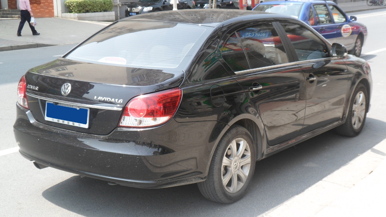 Volkswagen Lavida photographed in Shanghai, China.